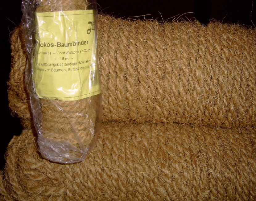 Ropes made of coconut fibres